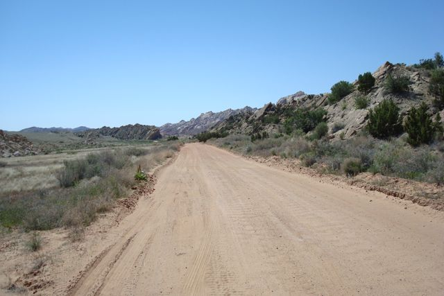 Notom-Bullfrog-Road near junction with Burr Trail